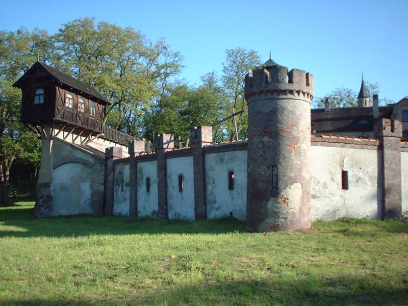 Pavillon de chasse in Bugaj, Poland